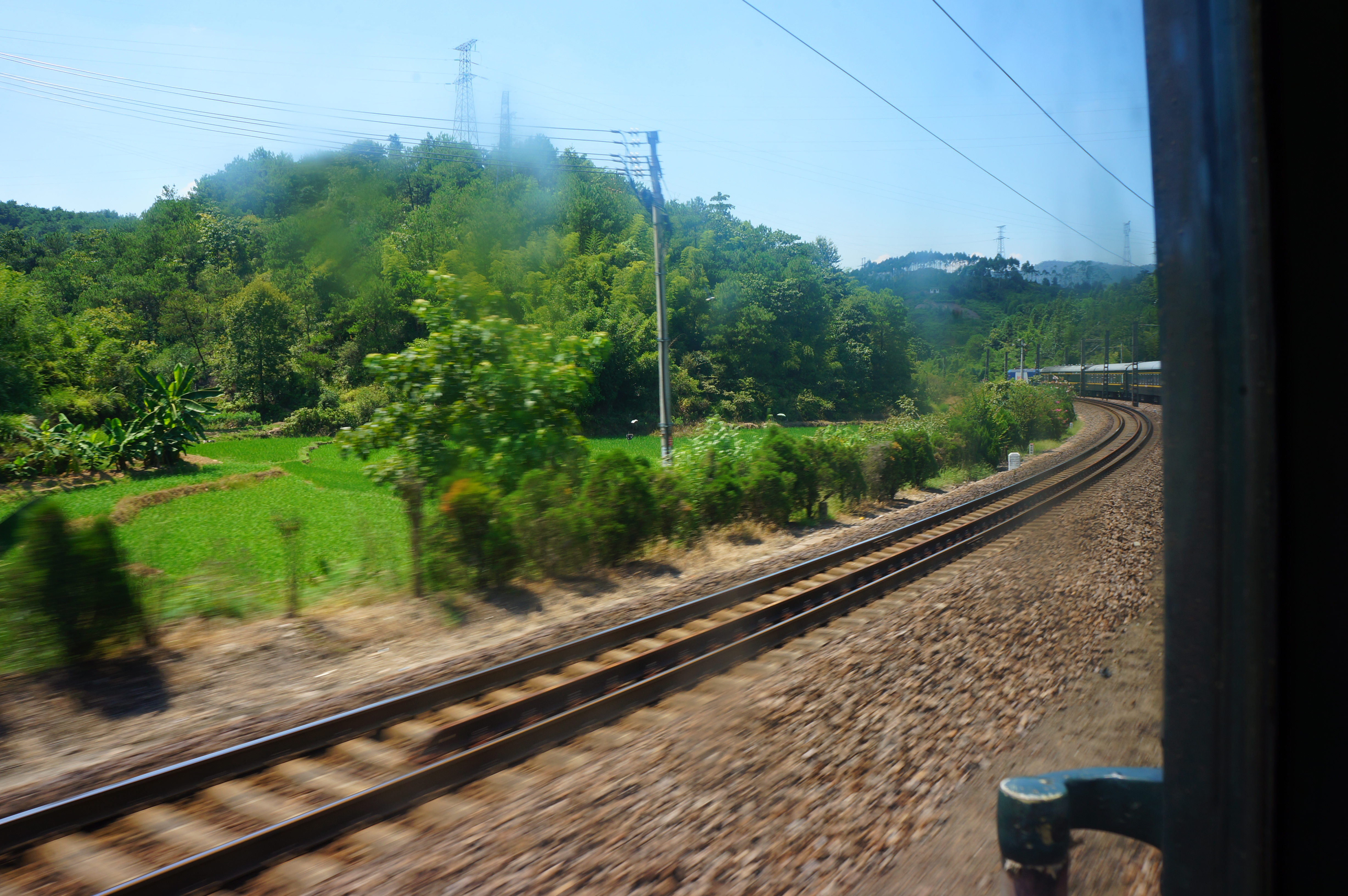 201708 non-electrified Zhangping-Longyan-Kanshi Railway near Zhuozhai